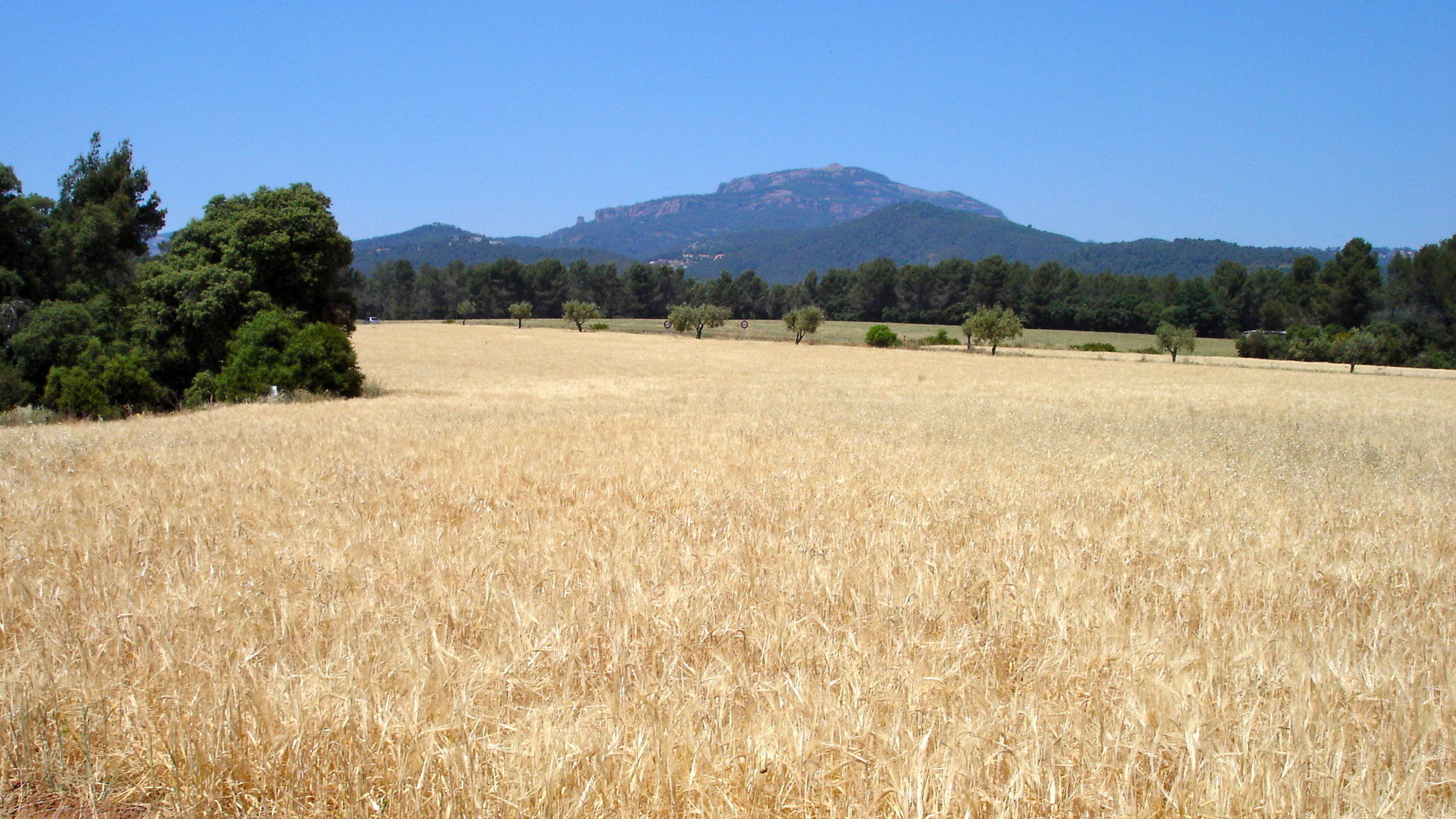 Barley field with La Mola Montain as background, Catalonia